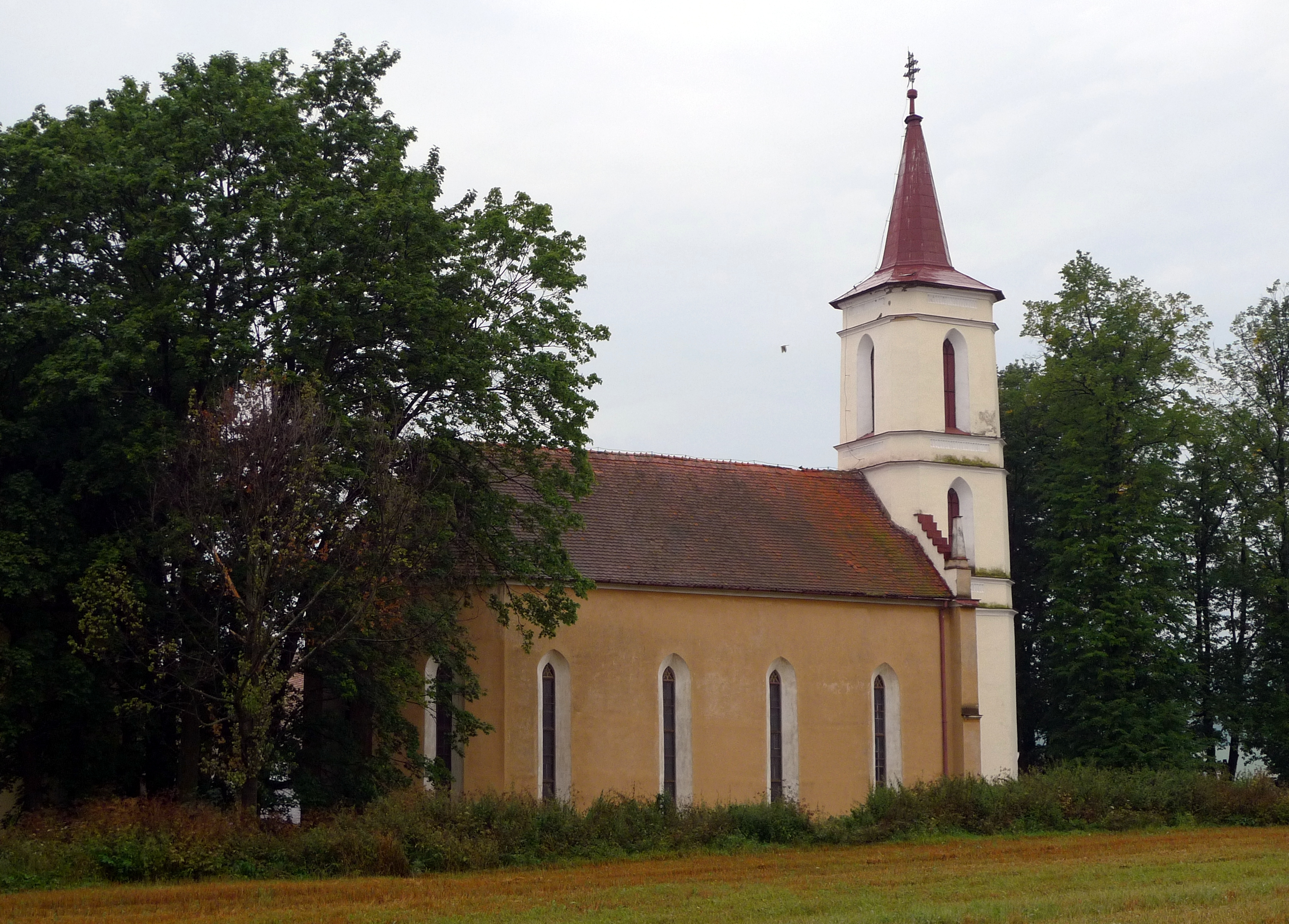 Castle Spišský Štiavnik in Kaštiel, Slovakia Česky: Zámek Spišský Štiavnik v osadě Kaštiel na Slovensku - kostel This medium shows the protected monument with the number 706-971/0 in the Slovak Republic.